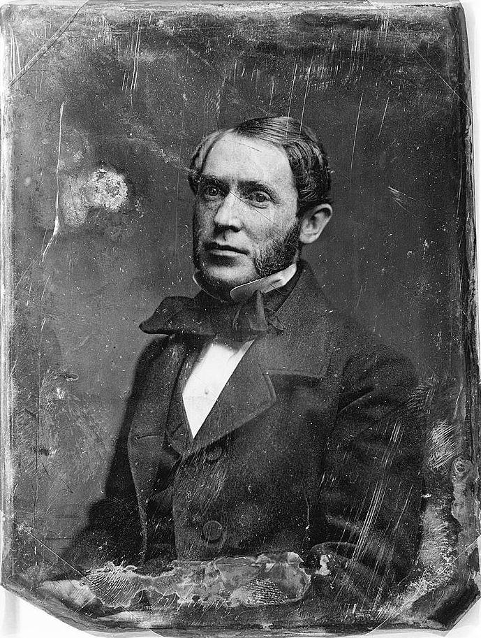 Depicted person: John H. Wheeler – American politician